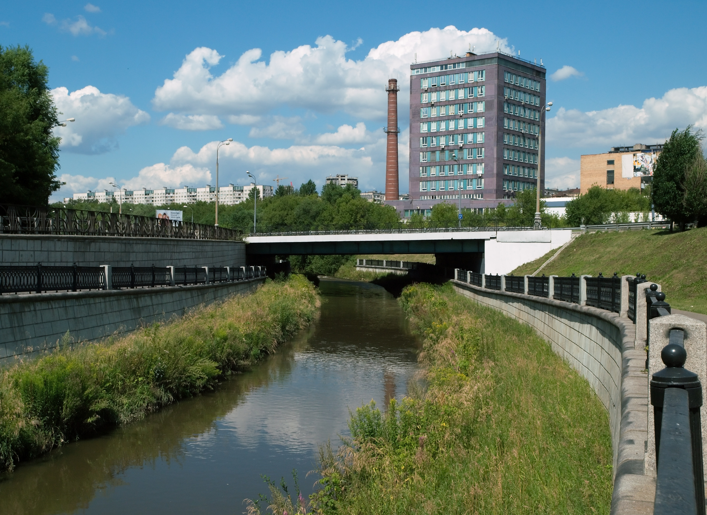 Oleniy Bridge, Moscow